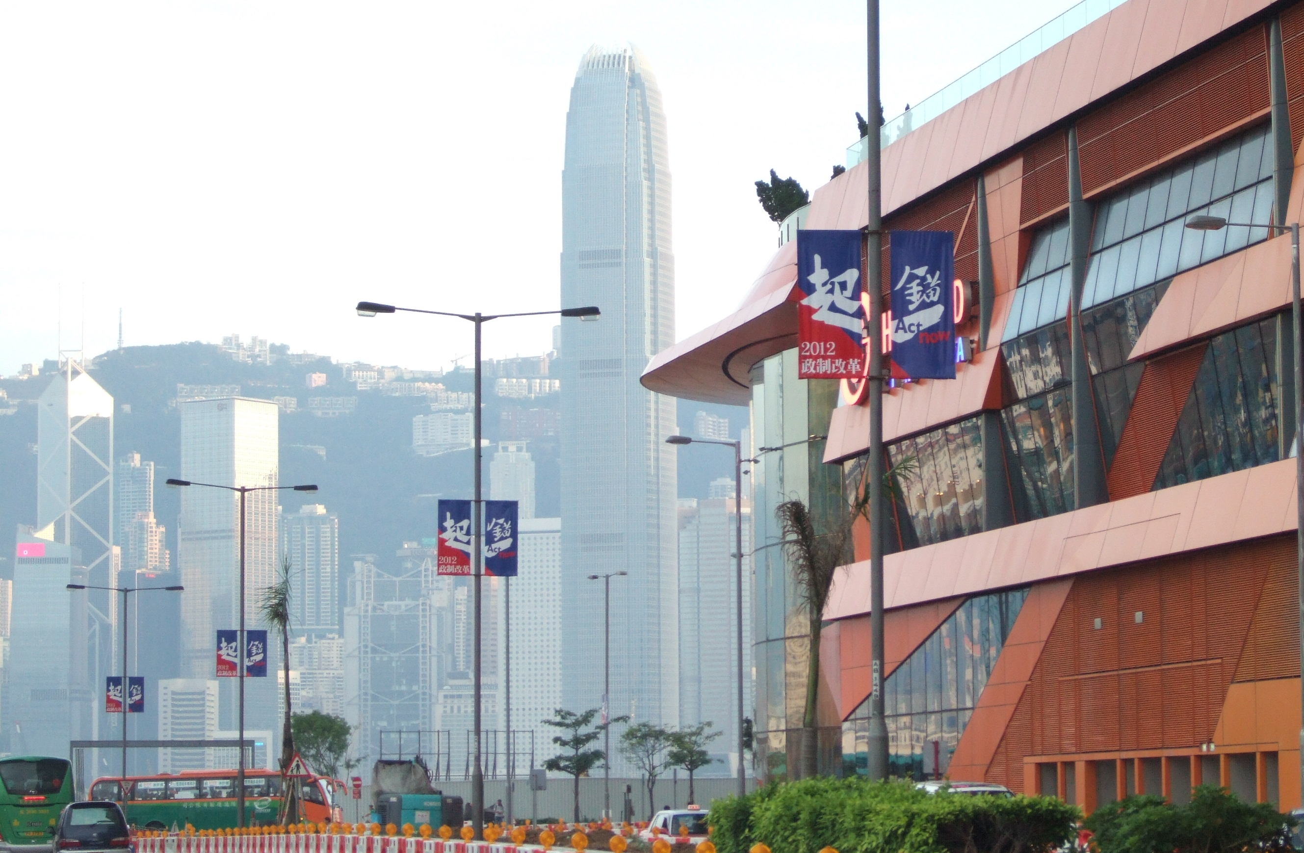 street shot showing advertising banners in support of the Hong Kong Government's 'Act Now' electoral reform campaign